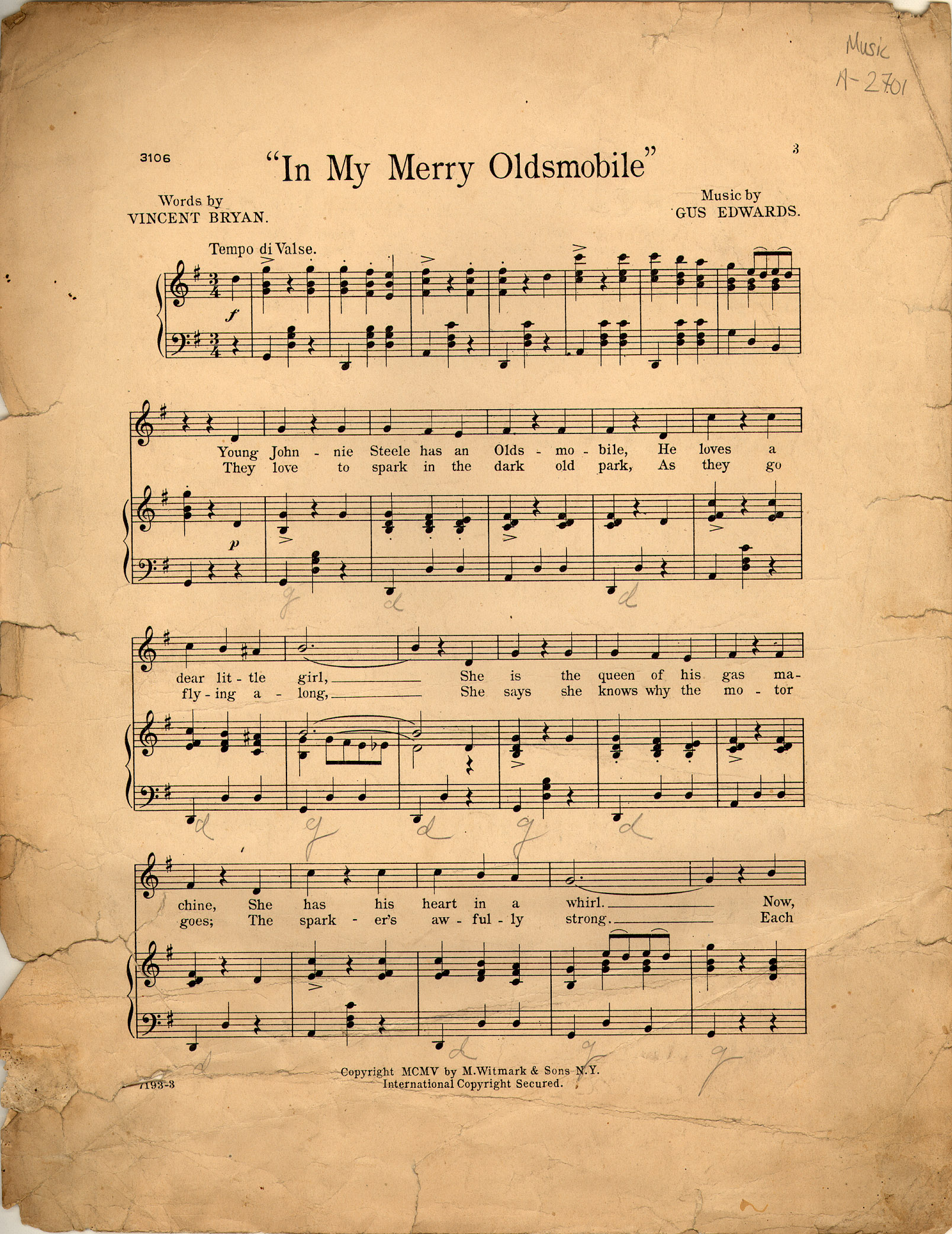 Sheet music of "In My Merry Oldsmobile", page 1 of 3.